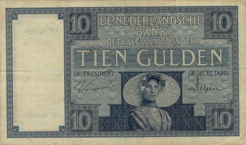 Ten guilder banknote from 1930